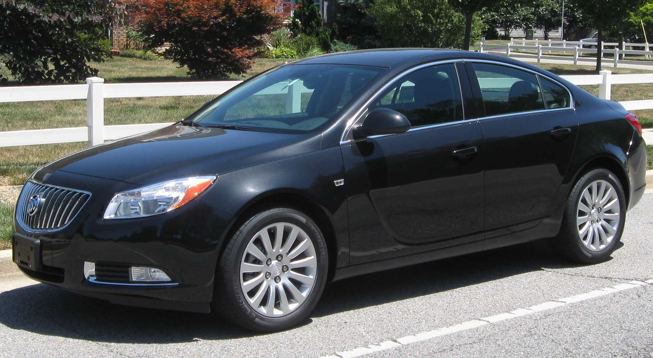 2011 Buick Regal CXL photographed in Annapolis, Maryland, USA.